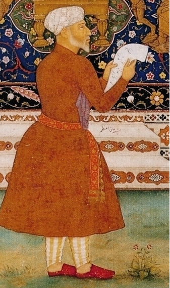 Khan Azam Mirza Aziz Koka, Son of Shamsuddin Muhammad Atgah Khan. He was foster brother of Akbar and a powerful nobleman. He served in many campaigns of Akbar in Bihar, Bengal and then Gujarat.